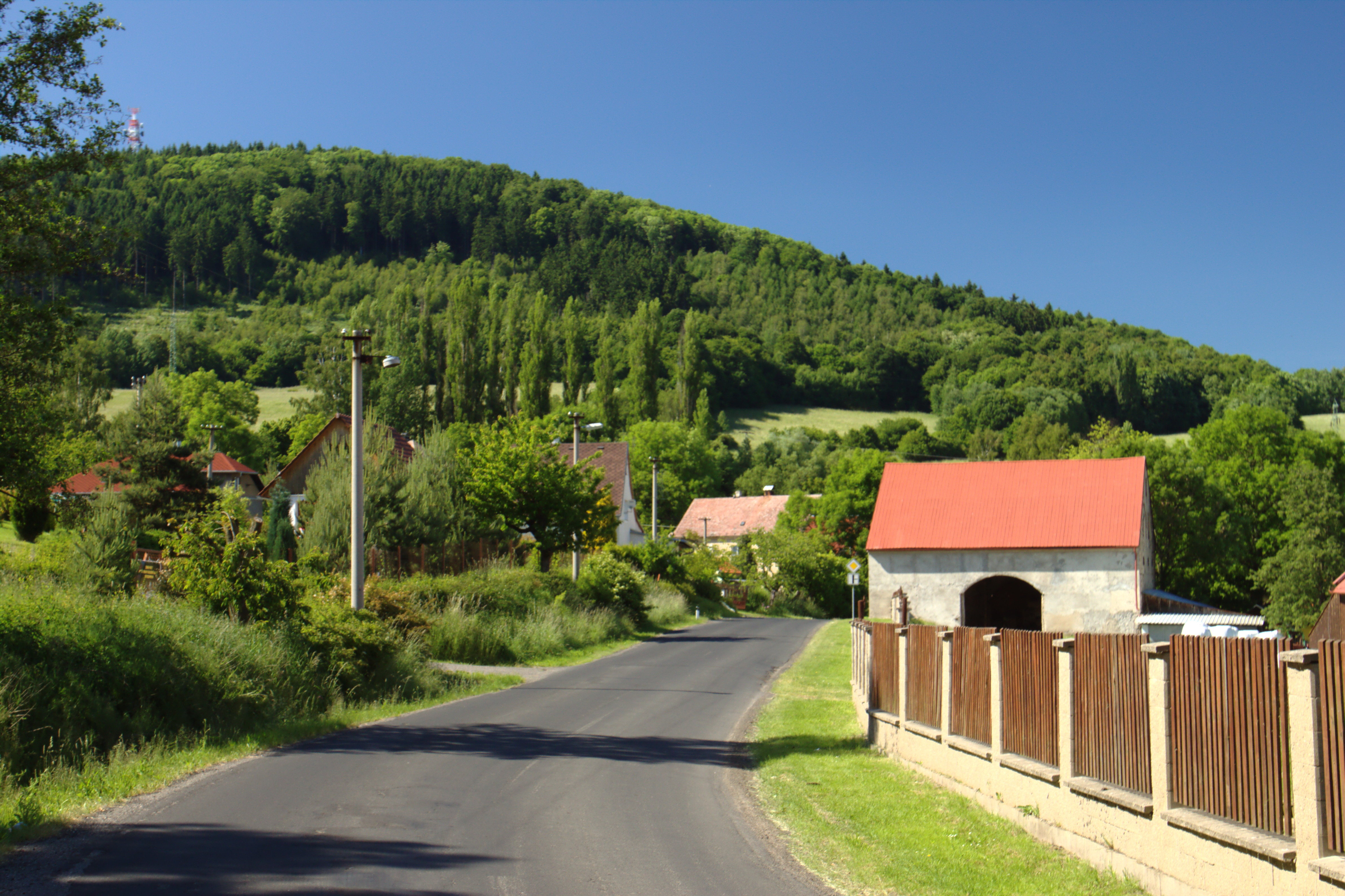 Main road in the village of Tašov, Ústí Region, CZ